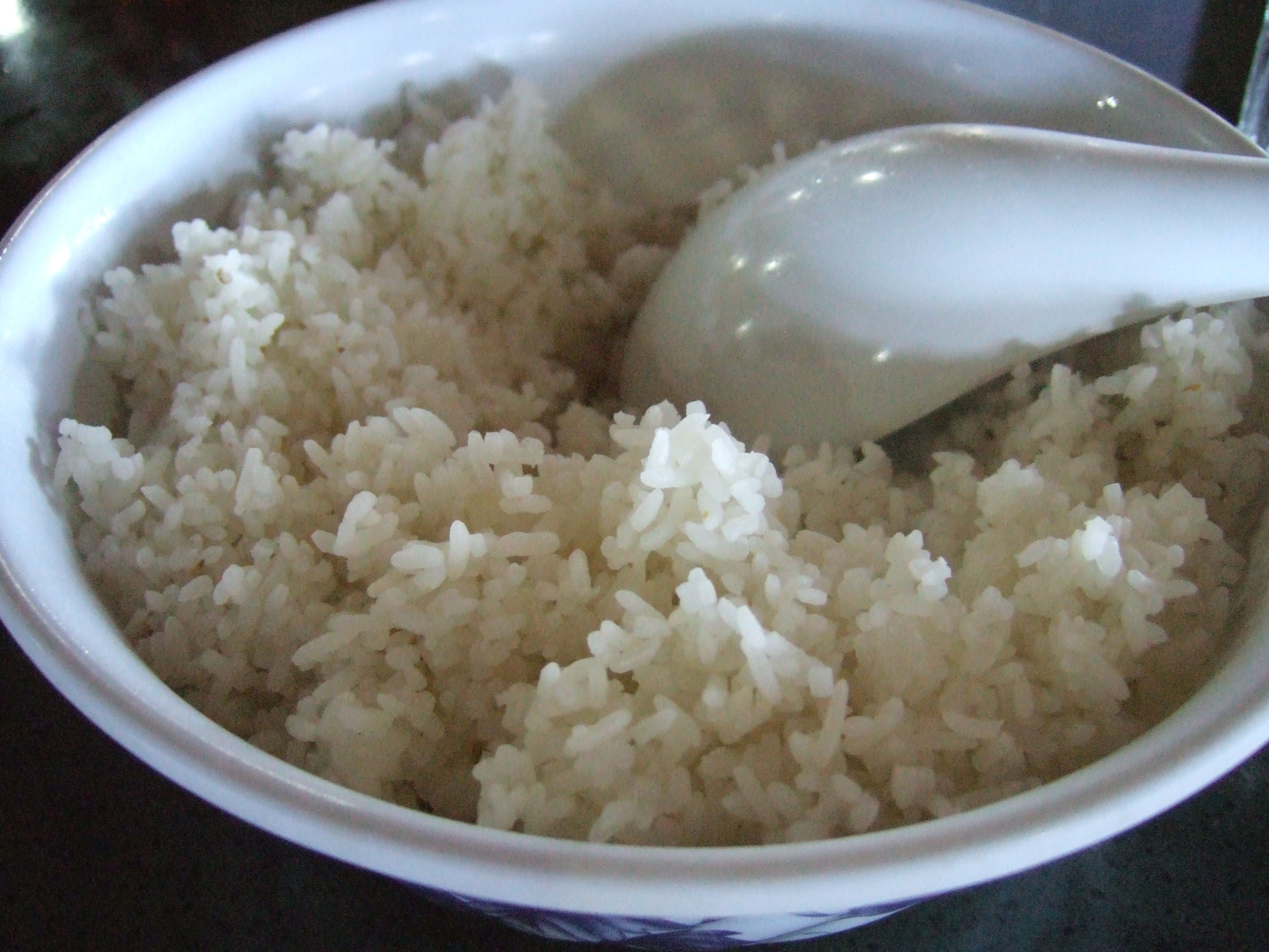 Cooked rice, Manado, Indonesia